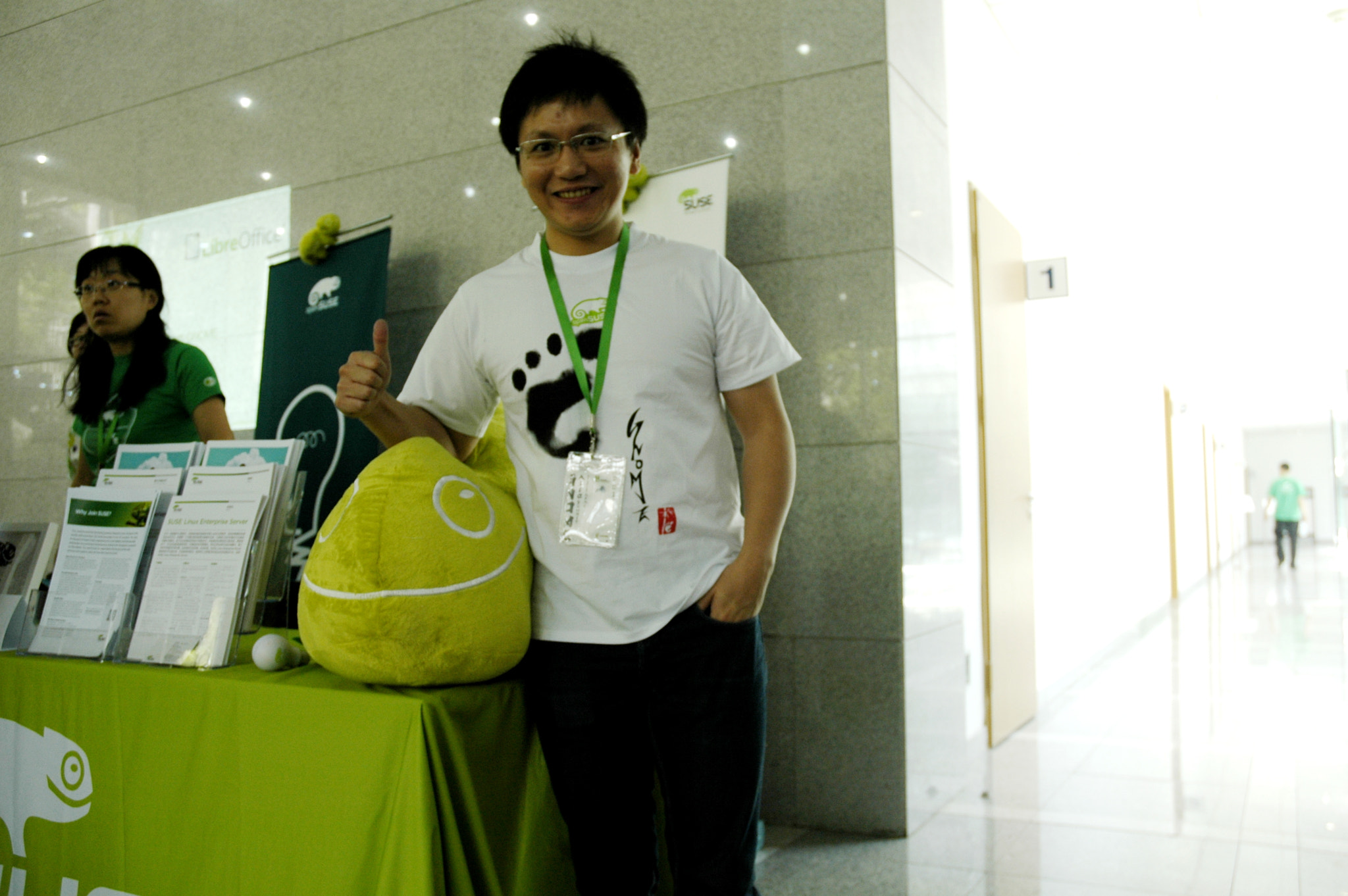 500px provided description: Suse Employee At Gnome Asia Summit [#people ,#Beijing ,#confrance]